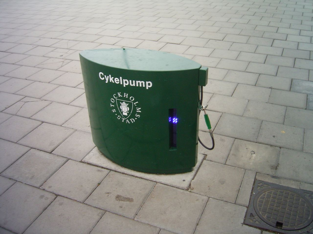 Public pump for bicycles located in Stockholm